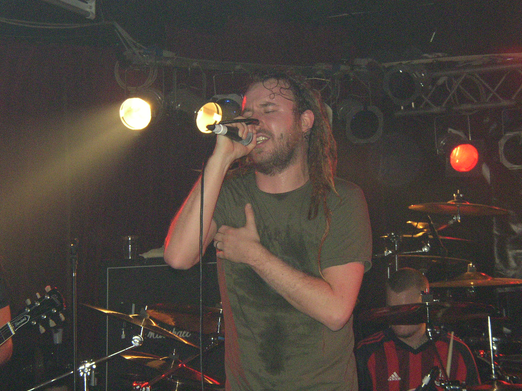 Anders Fridén live as singer for the band Passenger